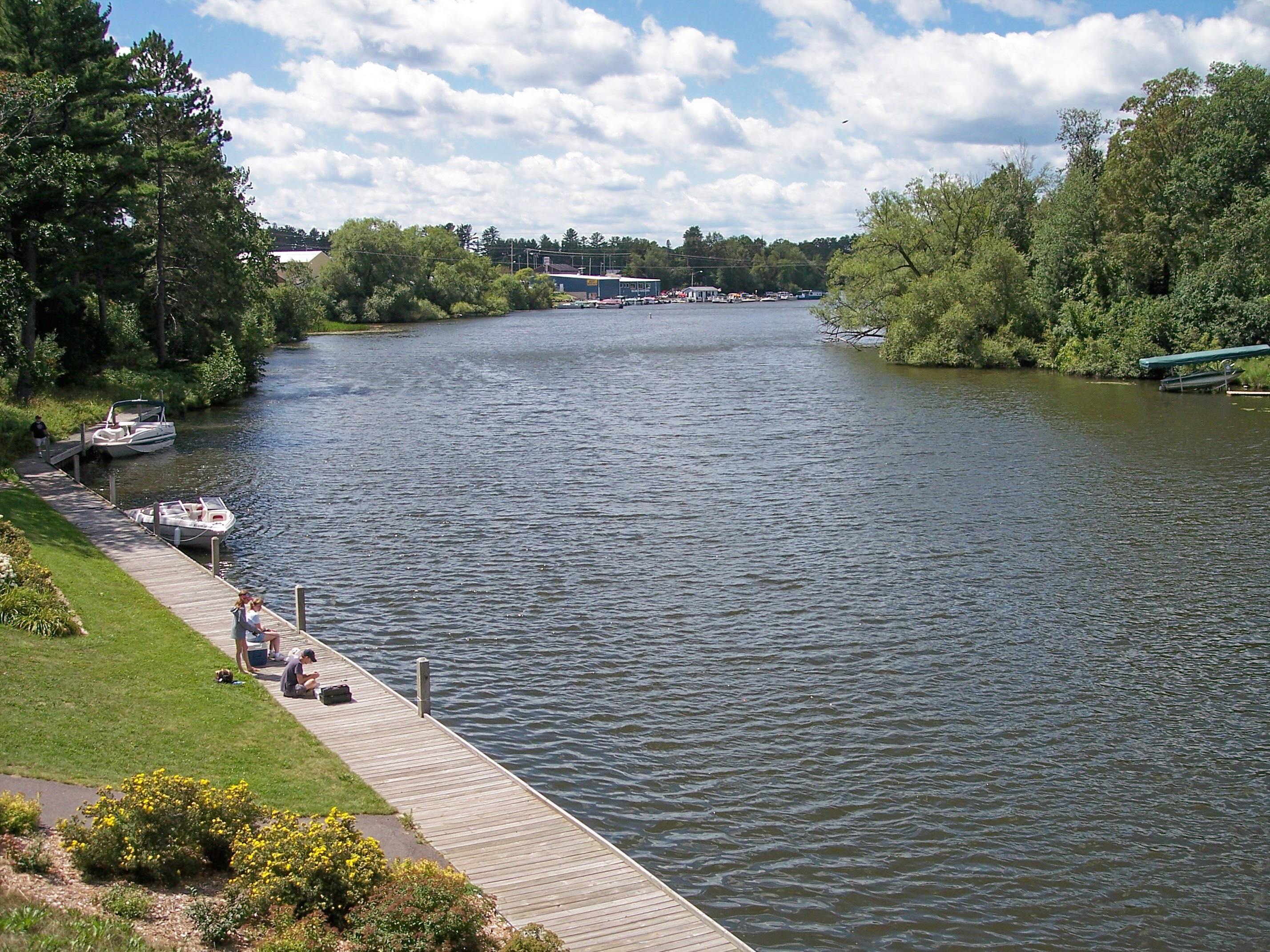 The Eagle River as viewed from U.S. Route 45 in the city of Eagle River, Wisconsin